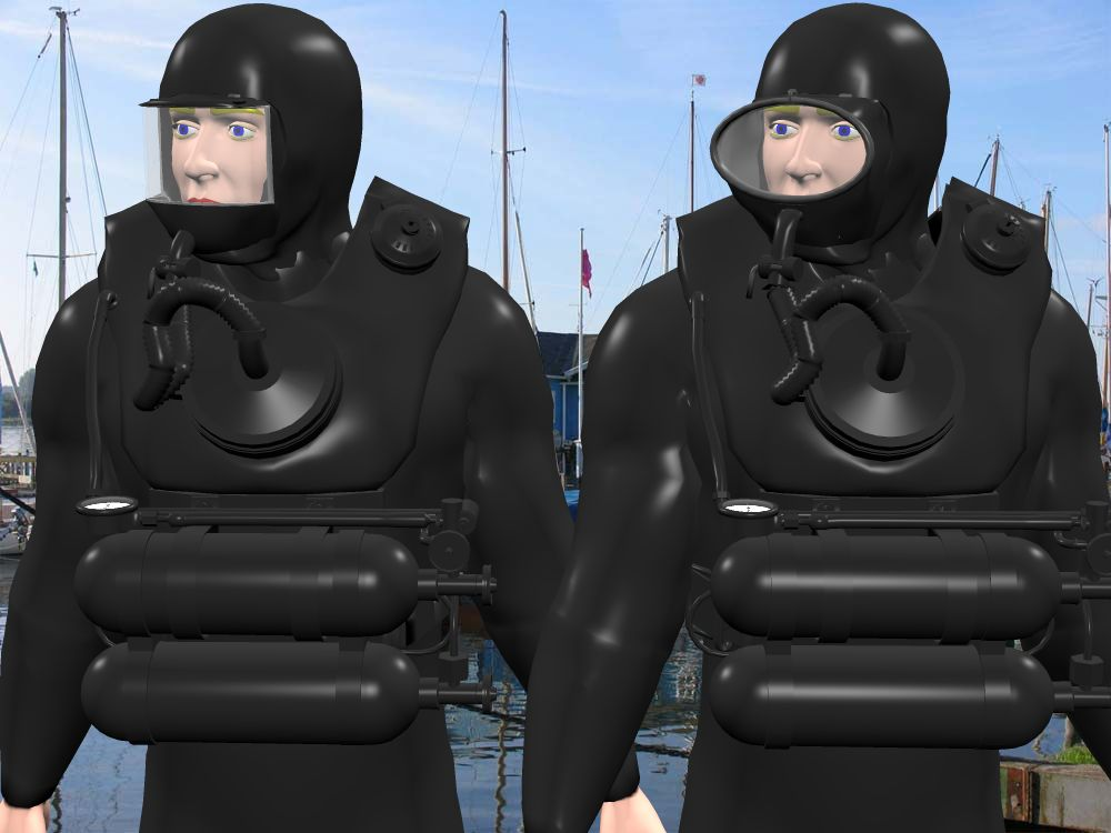 2 types of British frogmen's and naval divers' rebreather fullface masks: older (e.g. WWII) type with the oval window, newer with the rectangular window mostly flat but folded back at the sides.